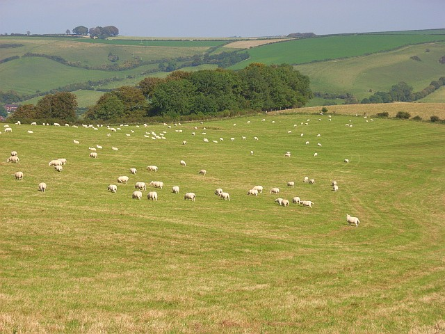 Combe Hill Combe Hill forms a ridge jutting out into the Sydling valley between Fisher's Bottom and Church Bottom above Sydling St Nicholas.